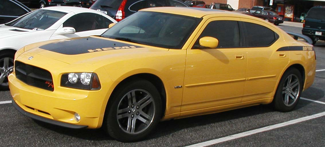 2006-2007 Dodge Charger Daytona R/T photographed in USA.